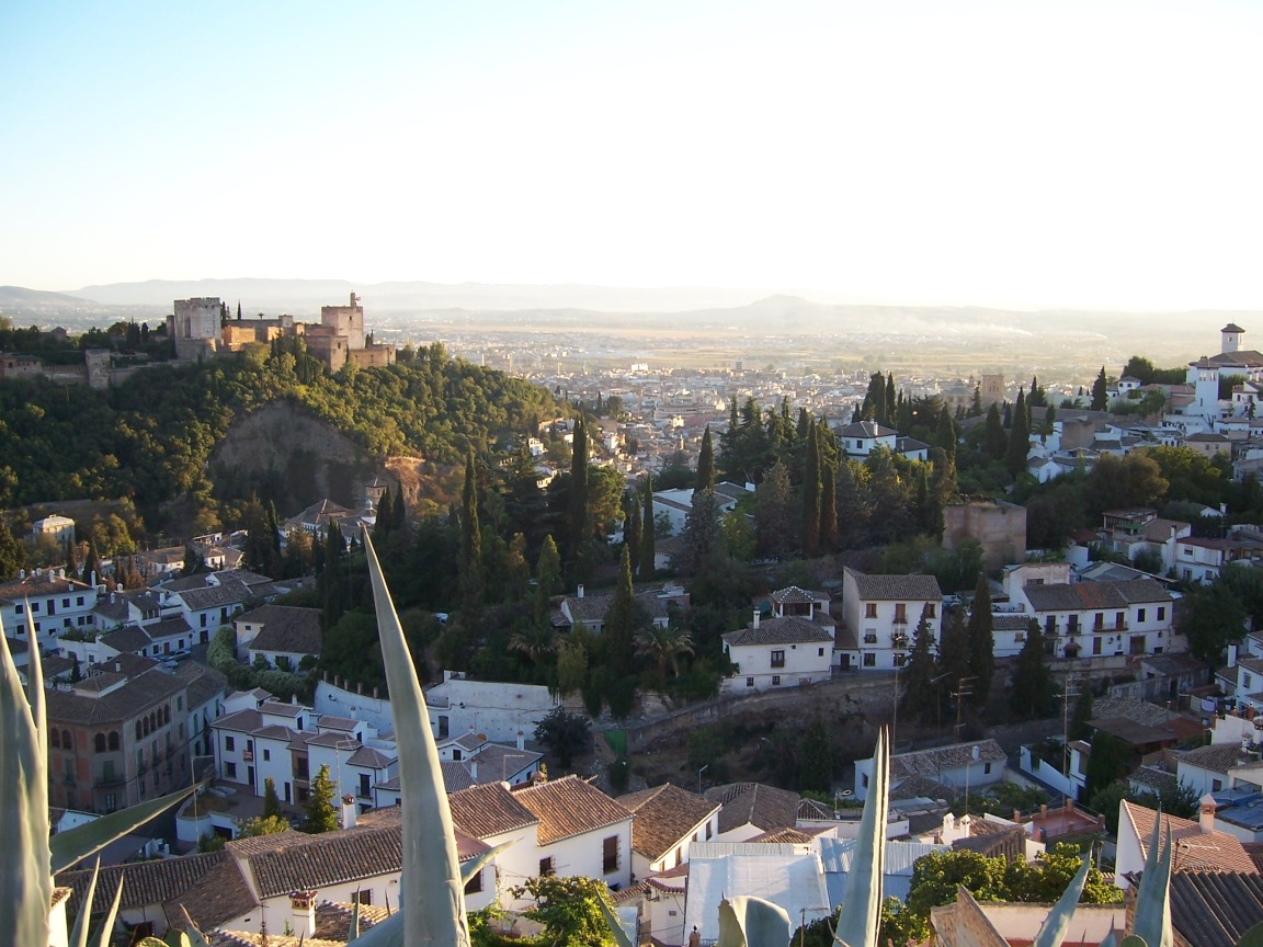 Photo taken in summer 2005 from sacromonte in Granada. View at the Alhambra at the left side, the Albaizin along the right side.